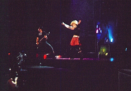 Madonna performing "Ray of Light" on the Drowned World Tour